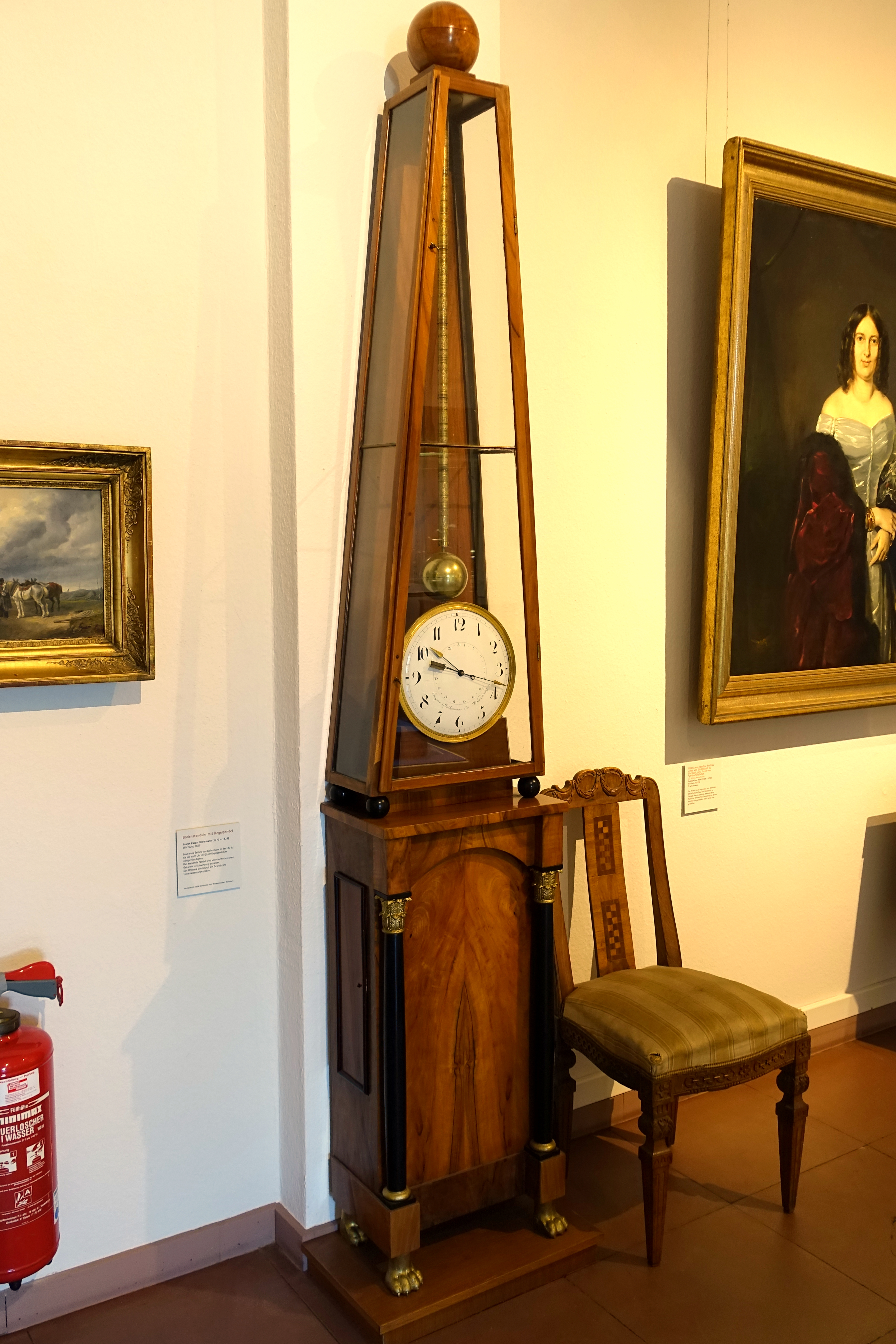 Exhibit in the Mainfränkisches Museum - Würzburg, Germany.